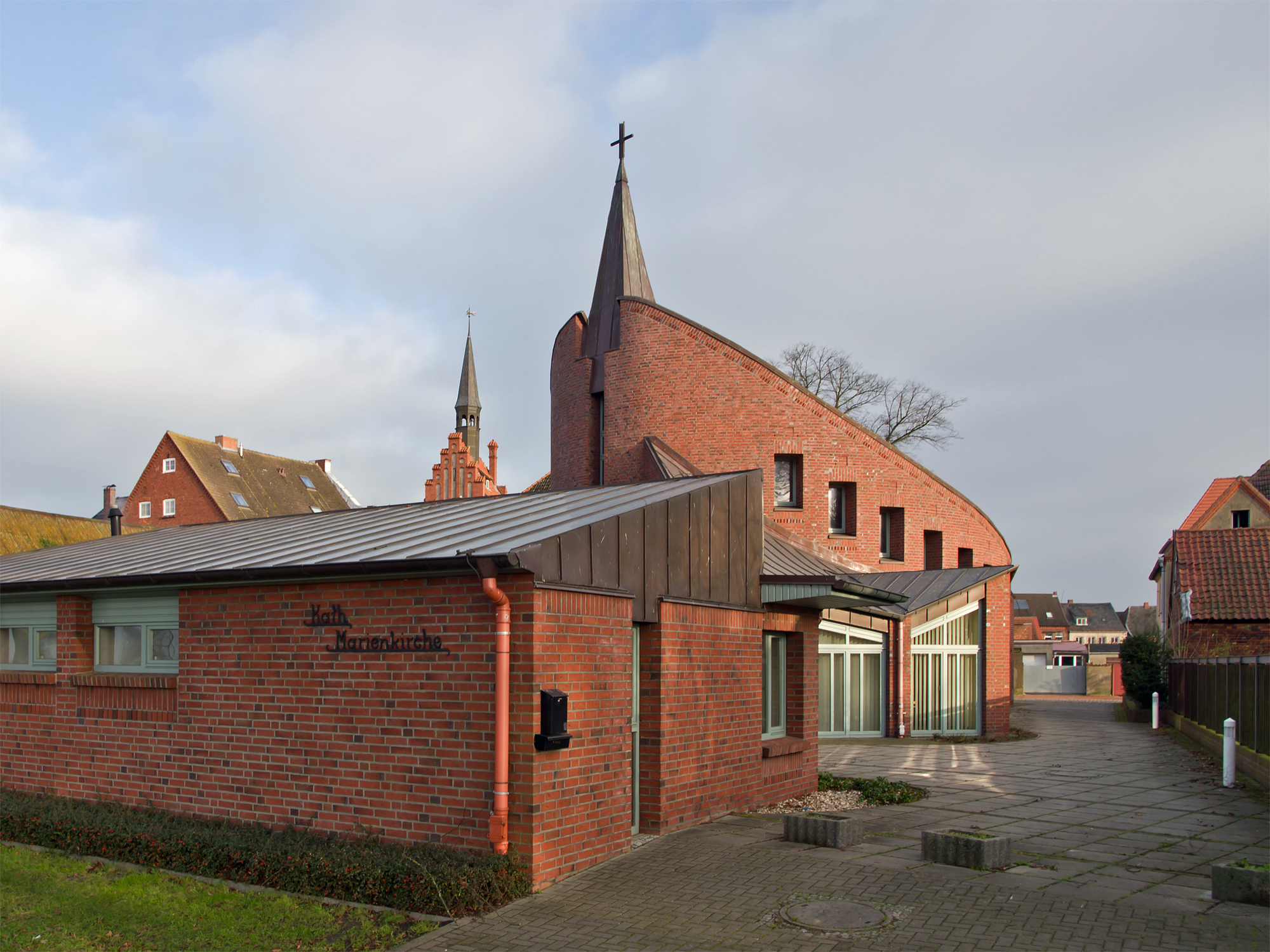 Catholic church of the small town Dömitz (district Ludwigslust-Parchim, northern Germany), building from 2000.